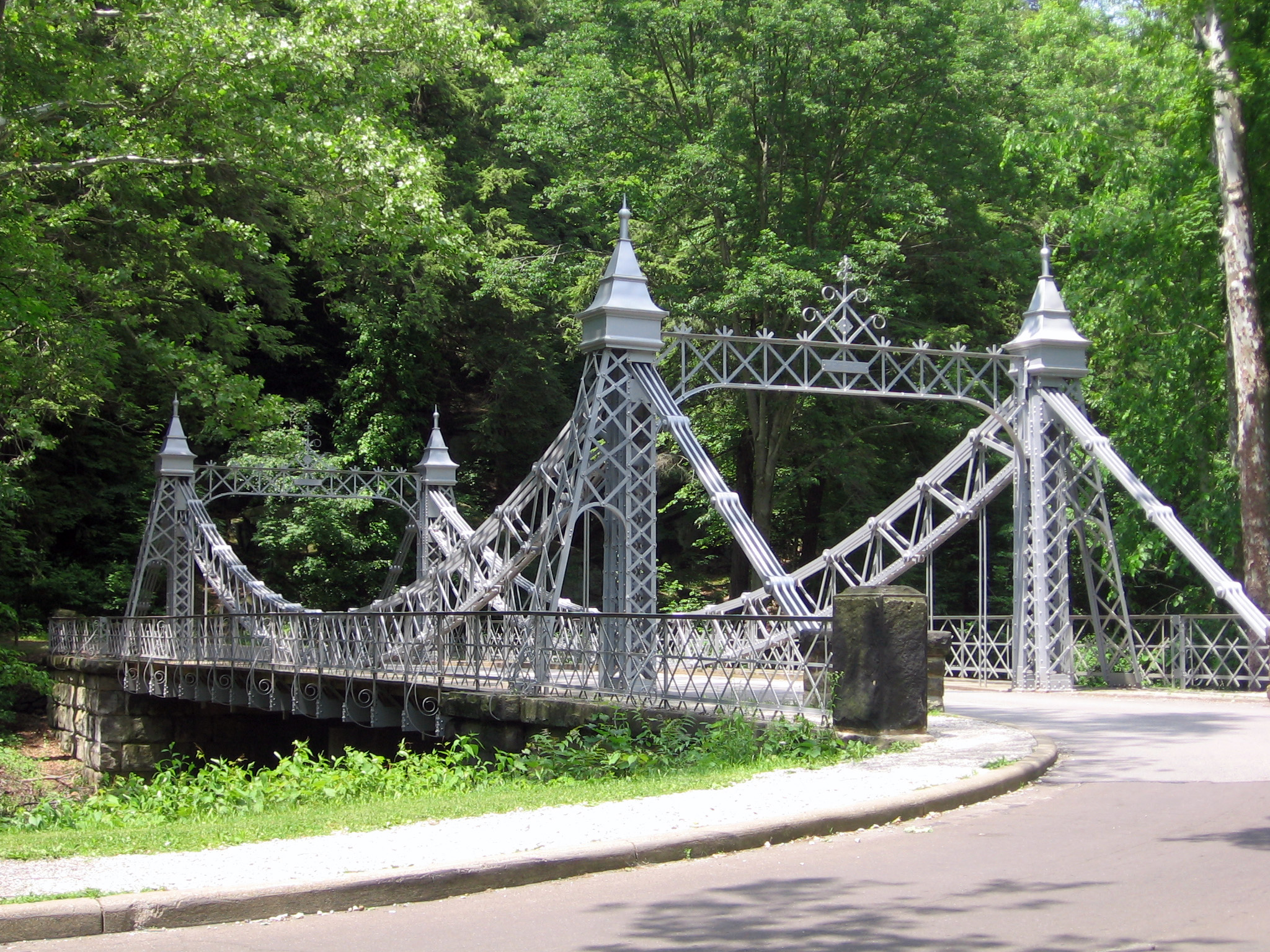 Mill Creek Park Suspension Bridge, located in Mahoning County, Ohio, listed on the National Register of Historic Places.